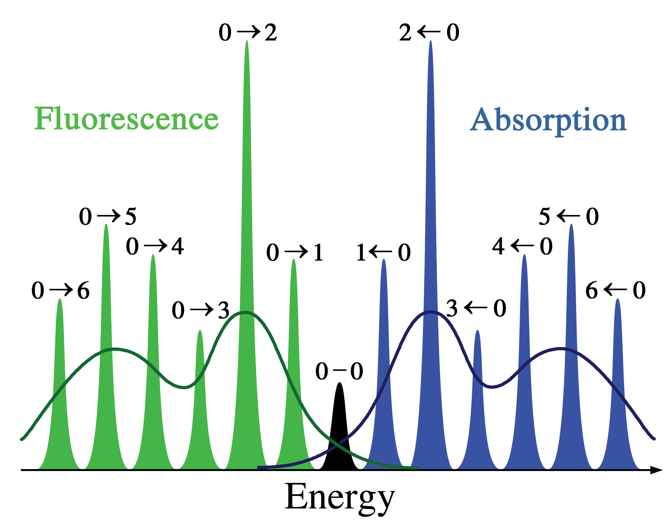 Depiction of absorption and fluorescence progression due to changes in vibrational levels during electronic transition